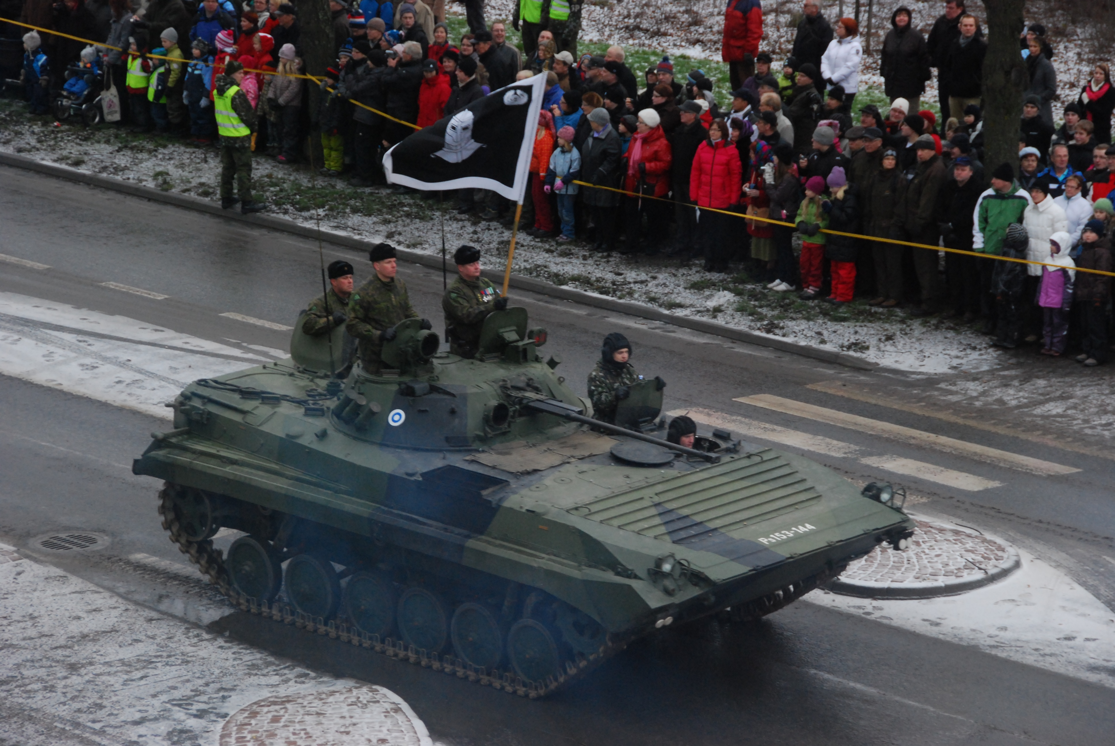 BMP-2 IFV of Finnish Army at the Finnish Independence day parade, Riihimäki, Finland.